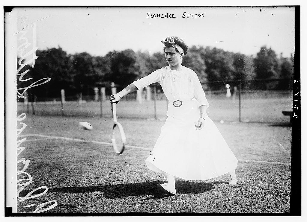 Bain News Service,, publisher. Florence Sutton in 1911 [tennis] [between ca. 1910 and ca. 1915] 1 negative : glass ; 5 x 7 in. or smaller. Notes: Title from unverified data provided by the Bain News Service on the negatives or caption cards. Forms part of: George Grantham Bain Collection (Library of Congress). Format: Glass negatives. Repository: Library of Congress, Prints and Photographs Division, Washington, D.C. 20540 USA, General information about the Bain Collection is available at Persistent URL: Call Number: LC-B2- 2218-6